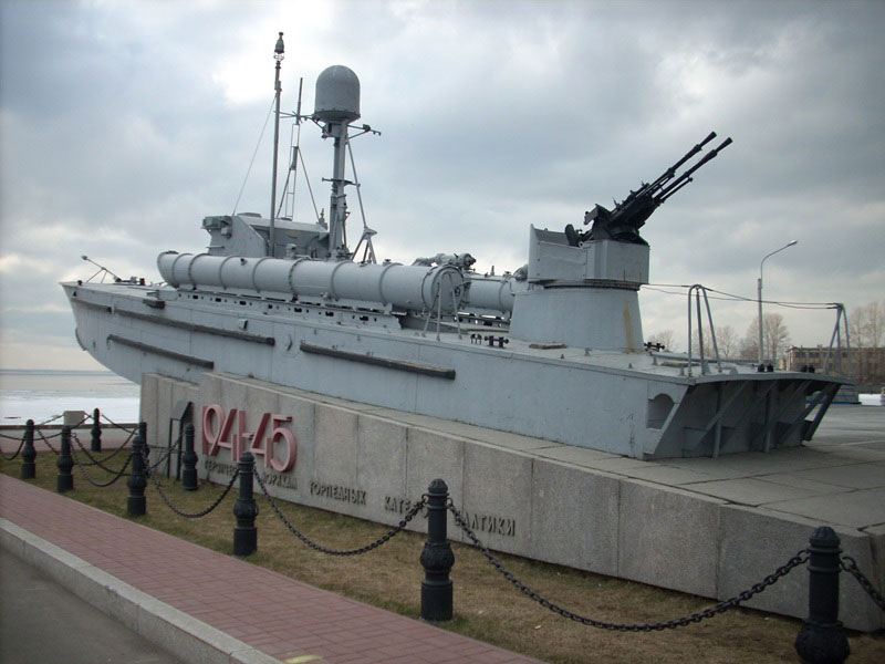 Ship weapon